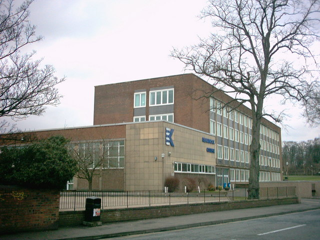 Kilmarnock College. Kilmarnock College to the East of the town centre on Holehouse Rd just off London Rd ( B7073 ). Previously known as Kilmarnock Technical College.